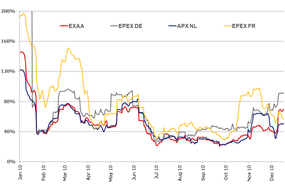 Comparison of the price volatility on European electricity spot markets.